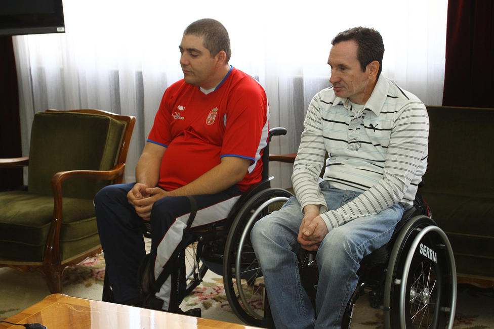 Zlatko Kesler